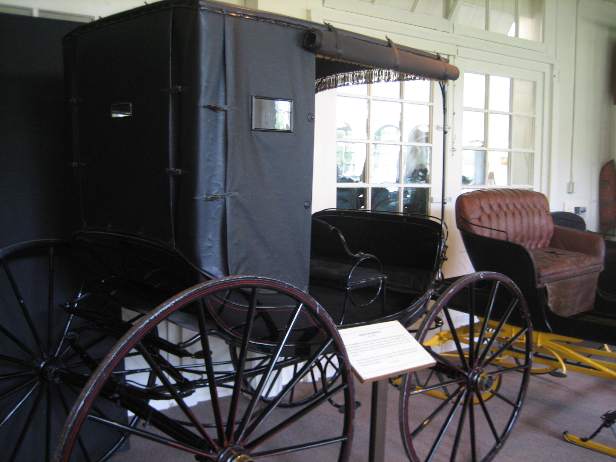 A Jump-Seat, Phaeton type carriage, circa 1860. At the Ellwood House Visitor Center in DeKalb, Illinois.